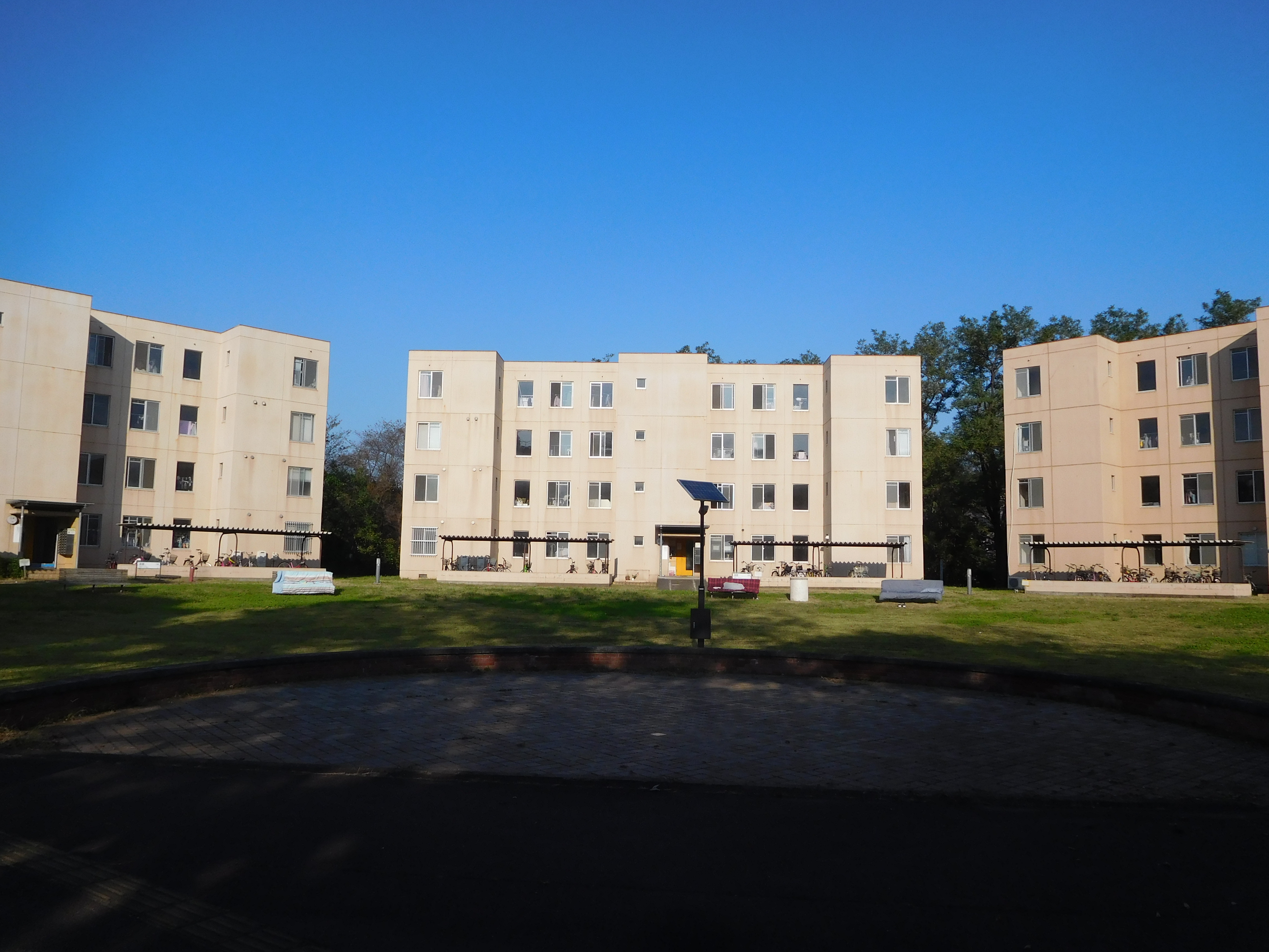 This is the University of Tsukuba Oikoshi Residence buildings in Tsukuba, Ibaraki, Japan.